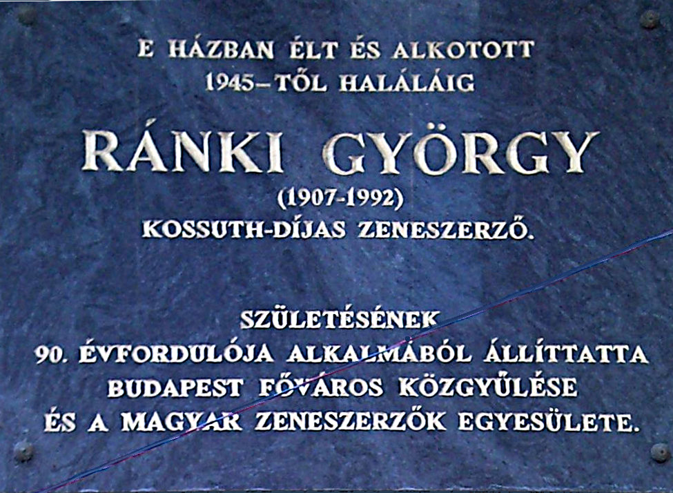 György Ránki (composer) commemorative plaque in Budapest District II, Gül Baba Street No 36.